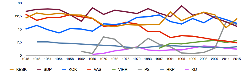 Parliament elections in Finland 1945–2015. Share of votes (%) of the larger parties. Data from Tilastokeskus 1945–2003 and tilastokeskus 1991–2015